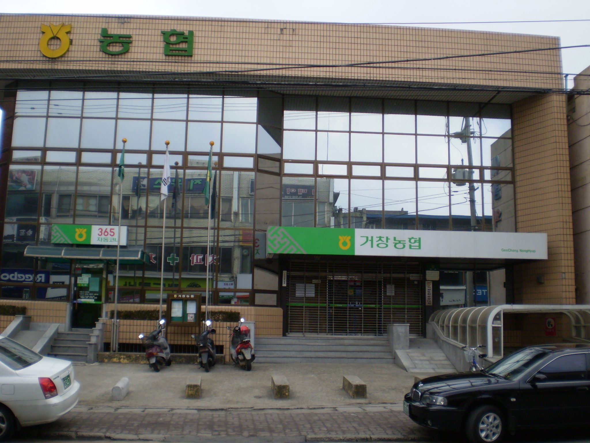 Offices of Nong Hyup, the national agricultural cooperative, in Geochang, Gyeongsangnam-do, South Korea.